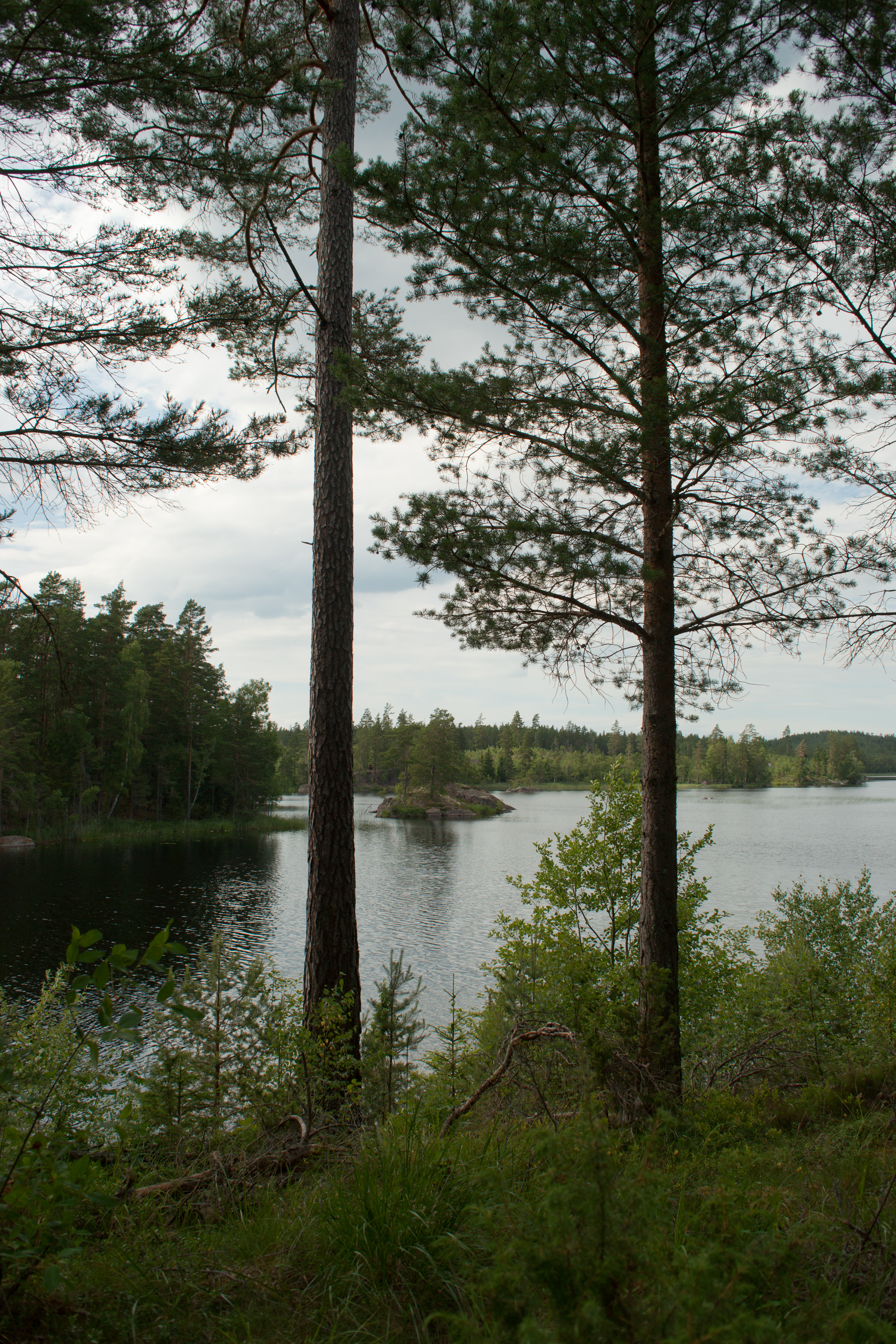 Stensjön, Sweden